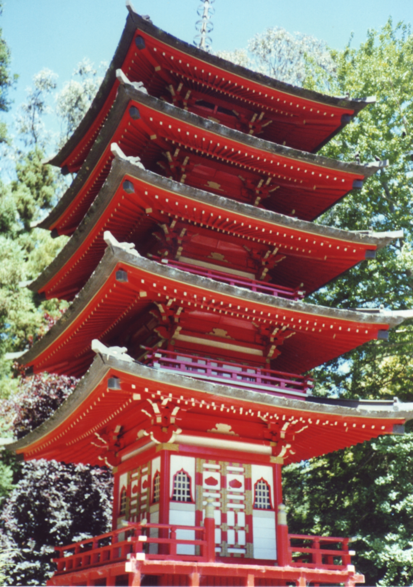 pagoda in the japanese tea garden of the Golden Gate Park in San Francisco